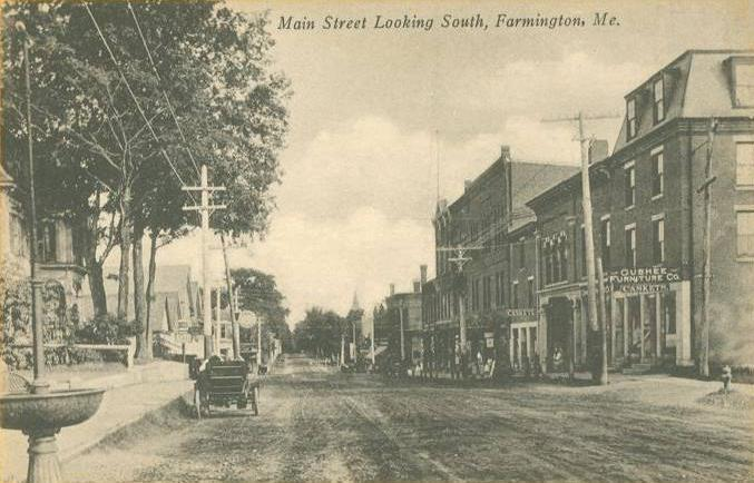 Main Street looking South, Farmington, ME; from a 1919 postcard.